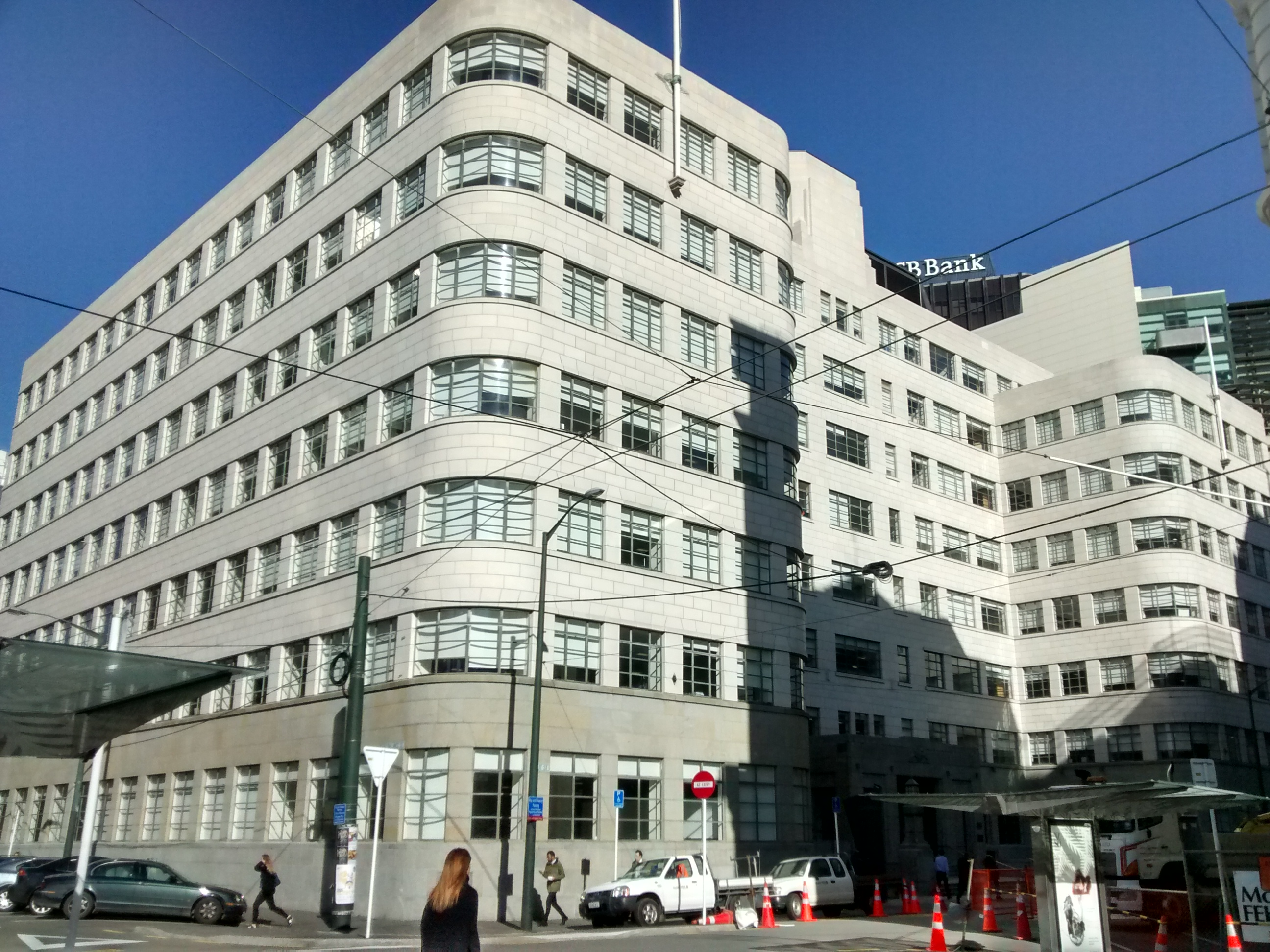 The MBIE building on Stout Street. It was formerly Defence House